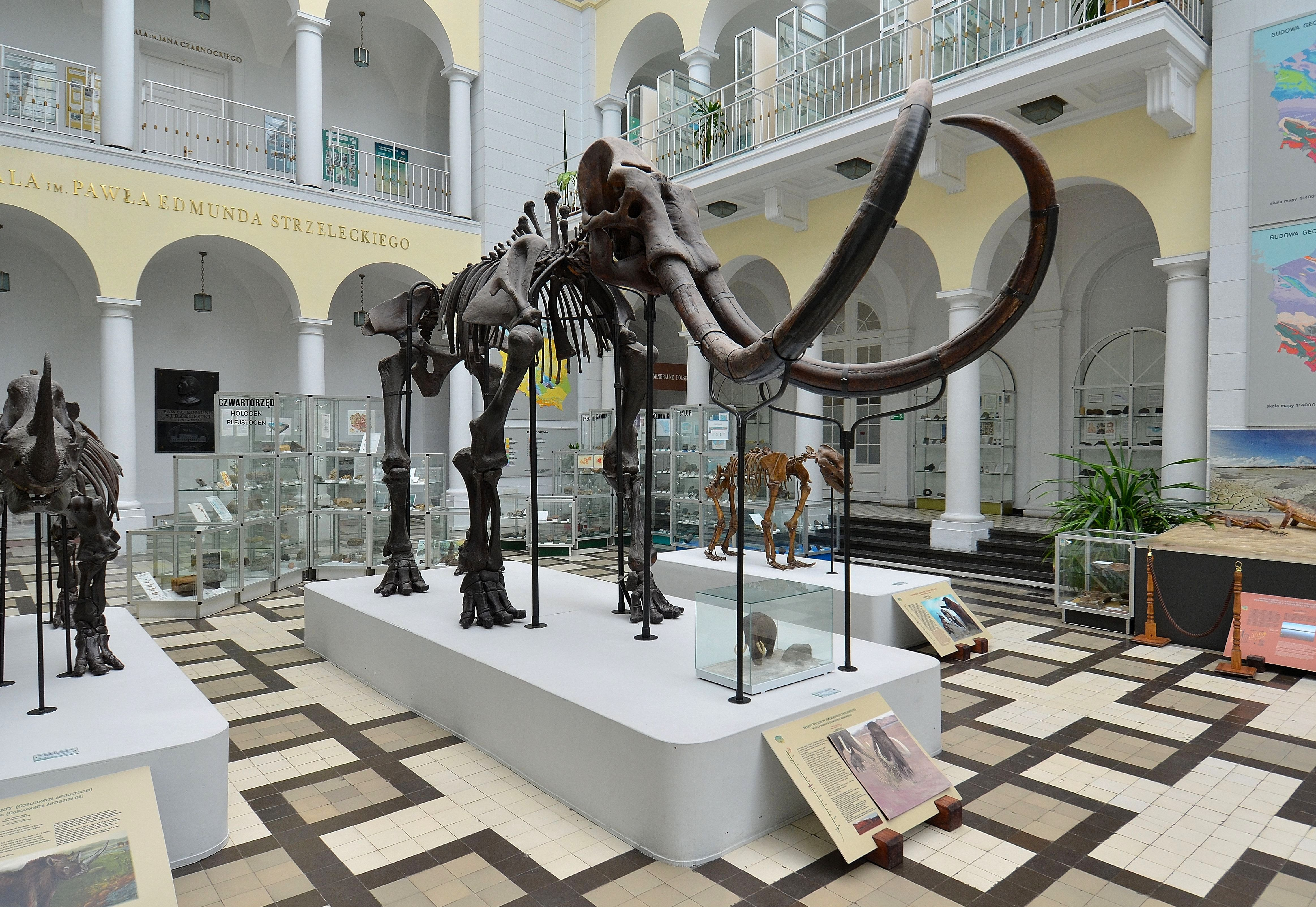 Skeleton of a woolly mammoth. Geological Museum of the State Geological Institute in Warsaw